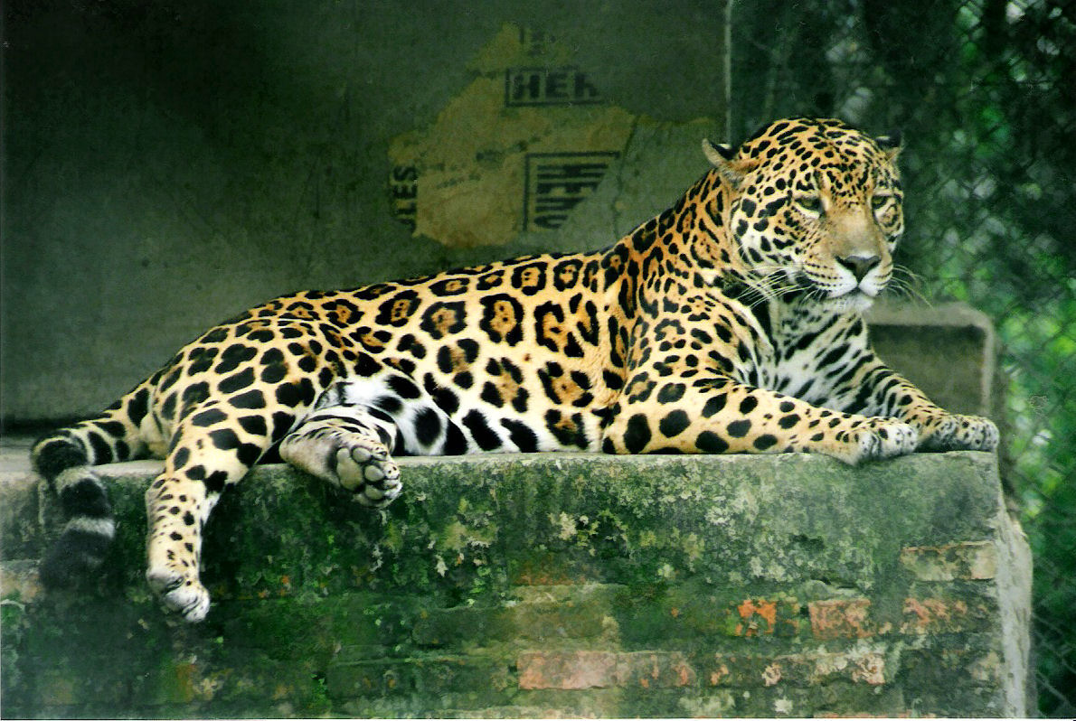 A jaguar (Panthera onca), in a wildlife rescue & rehabilitation centre in Formosa Province, Argentina. August, 1998.